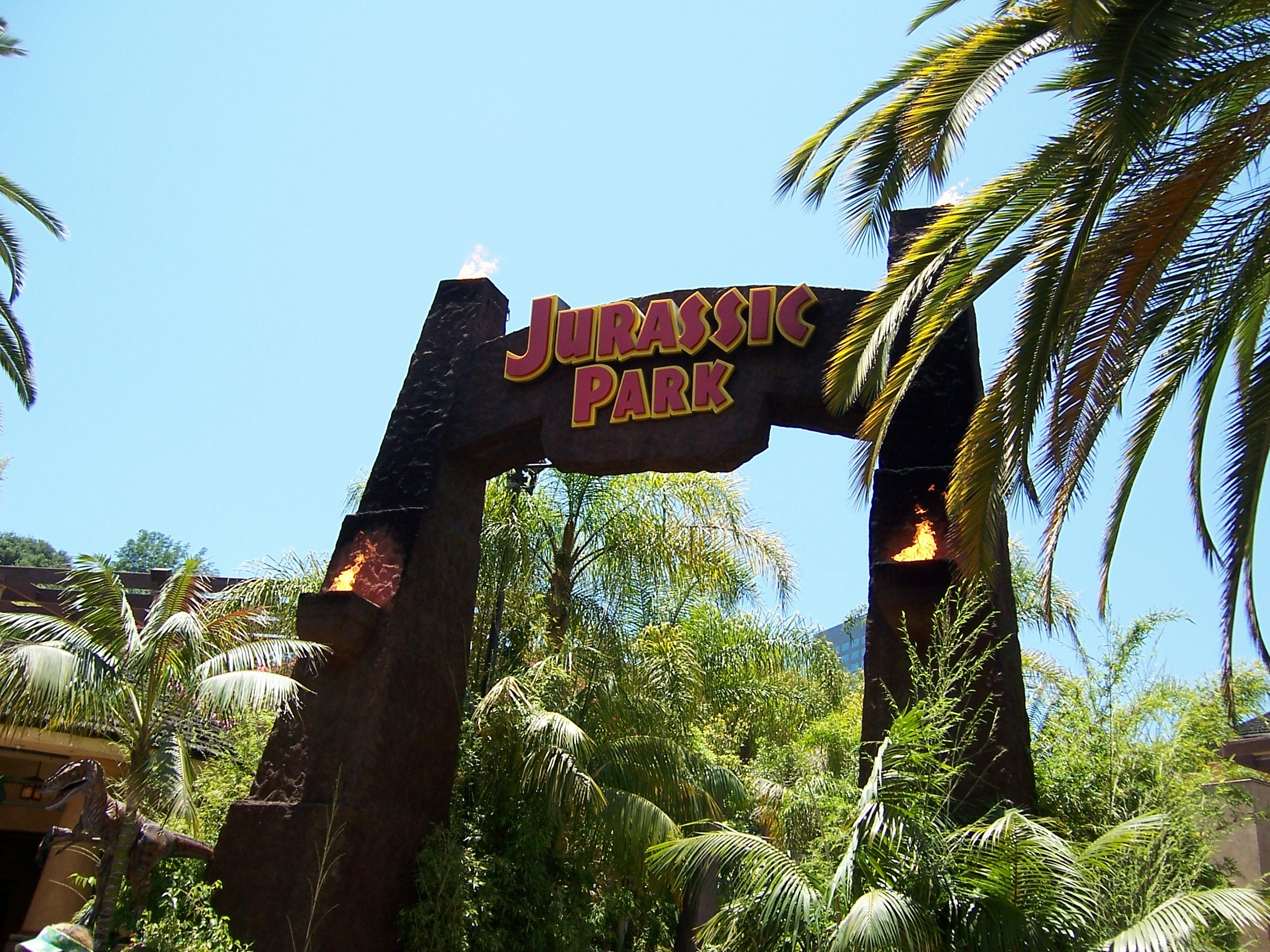 Jurassic Park entrance at Universal Studios Hollywood.